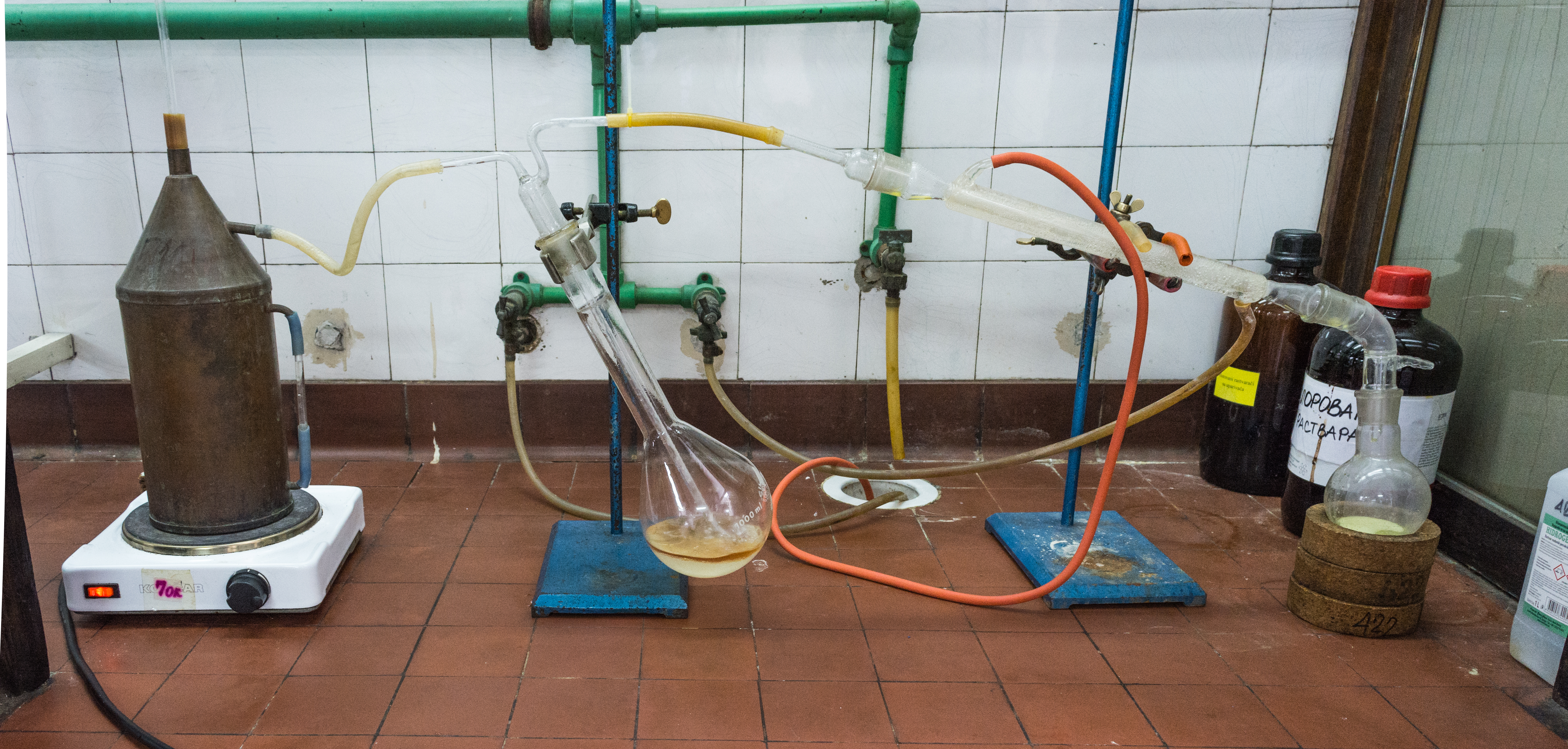 Steam distillation apparatus. On the left is copper boiler, to the right long-necked round-bottom flask, Liebig condenser and receptive round-bottom flask. Note: This setup (apparently based on File:Steam dist.svg) seems incorrect: the vessel in the middle should not exist, and both liquids should be collected in the flask at right.